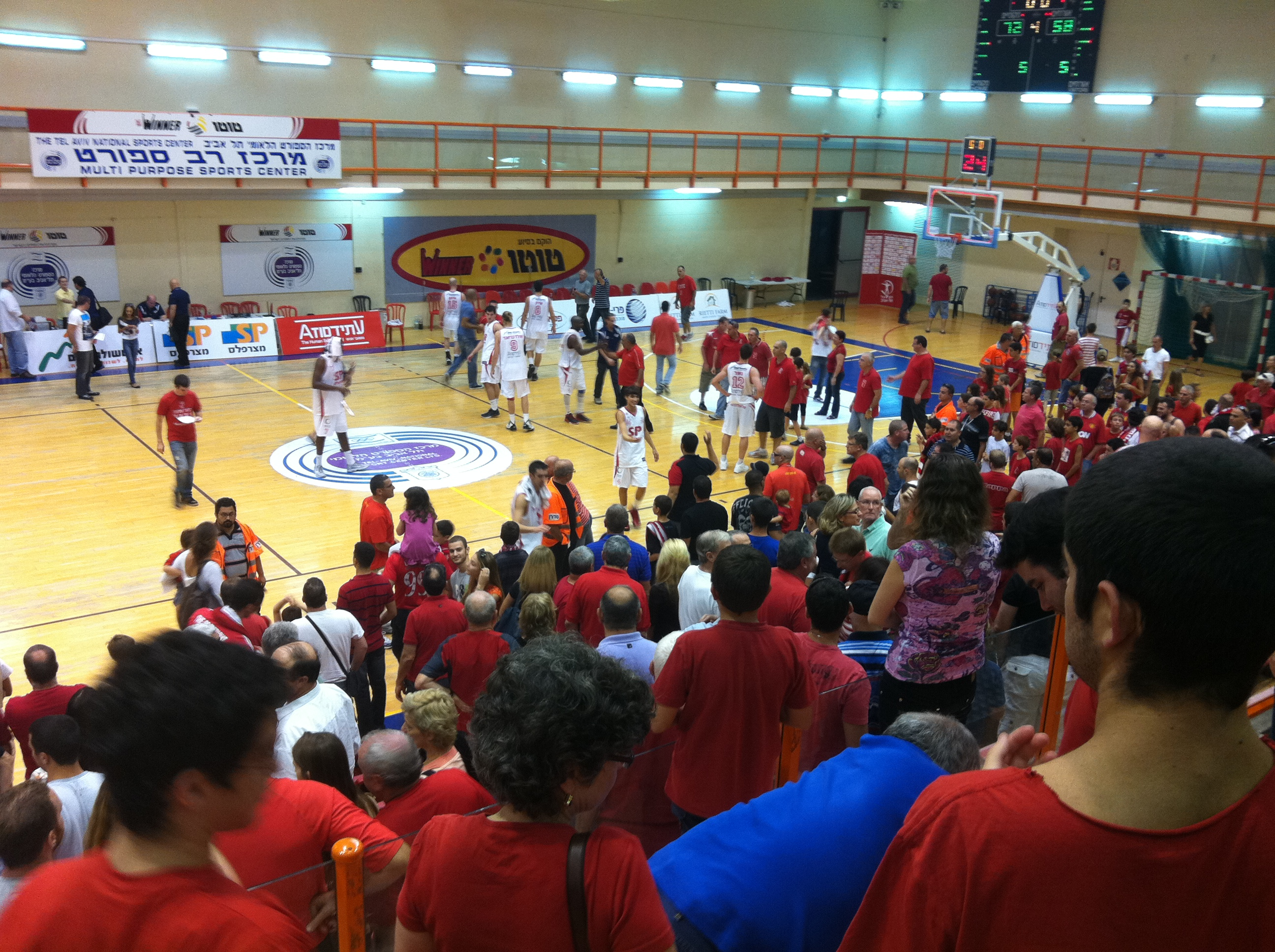 Hapoel Fans(basketball)